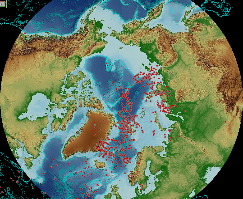 Map of sites in the Arctic for scientific sampling and investigations during the QUEEN research project (1996-2003)